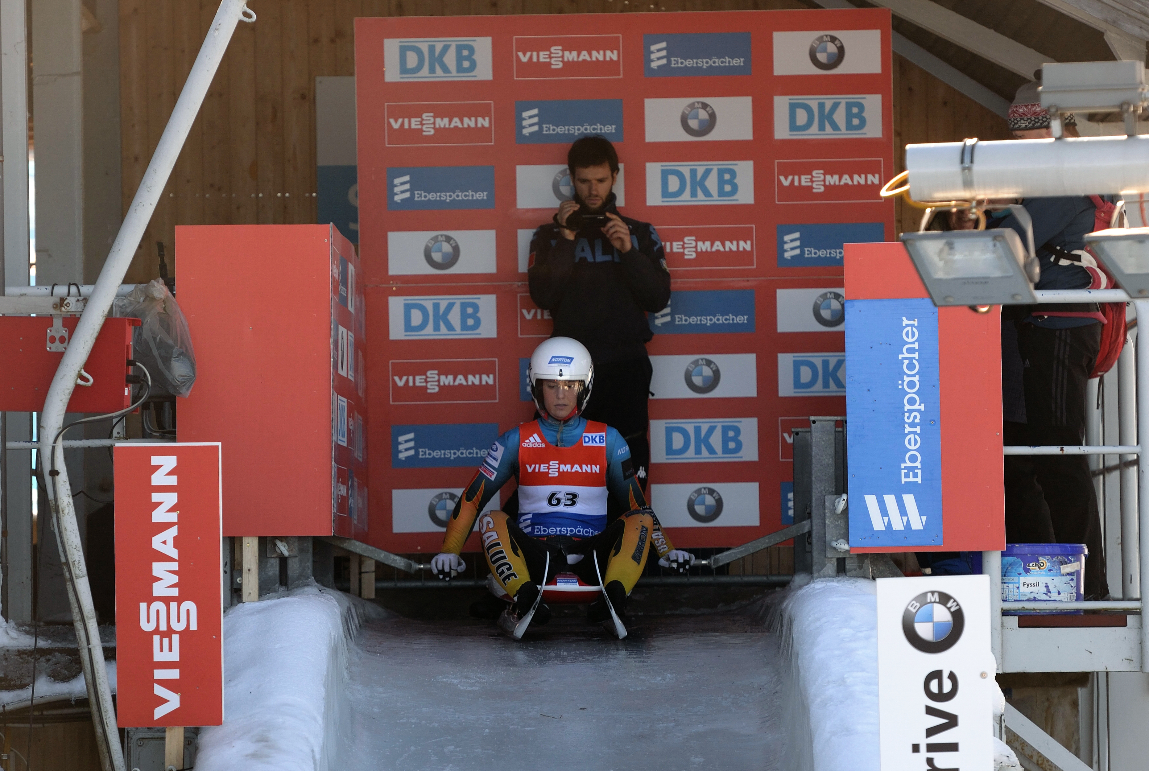 Luge world cup race season 2014/15 in Altenberg/Germany, 19th to 22nd Februar 2015. Day 1: training.